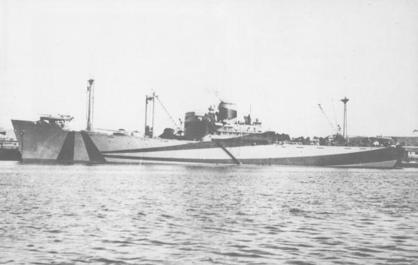 Japanese seaplane tender "Kinugasa-maru" at Singaple.